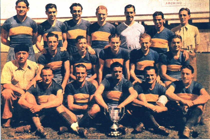 The Boca Juniors football team, 1940 Primera División champion. Fltr: (stood): Ibáñez, Lazzatti, Angeletti, Valussi, Estrada, General Viana; (middle): Sobral (Manager), Marante, Arcadio López, Carniglia, Francisco Sohn "Sas", Arico Suárez; (seated): Tenorio, Alarcón, Sarlanga, Gandulla, Emeal.